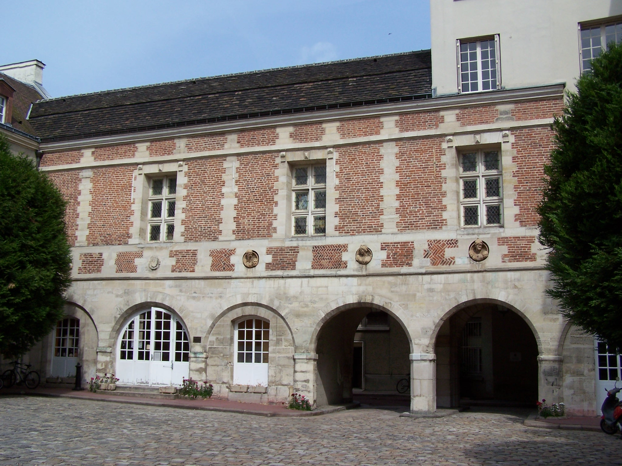 Vue de la cour intérieure de l'hôtel Scipion à Paris. Cet immeuble de la Renaissance en pierre et brique construit par Scipion Sardini arbore une série de médaillons entourés de décorations de briques disposées en épi une fois sur deux